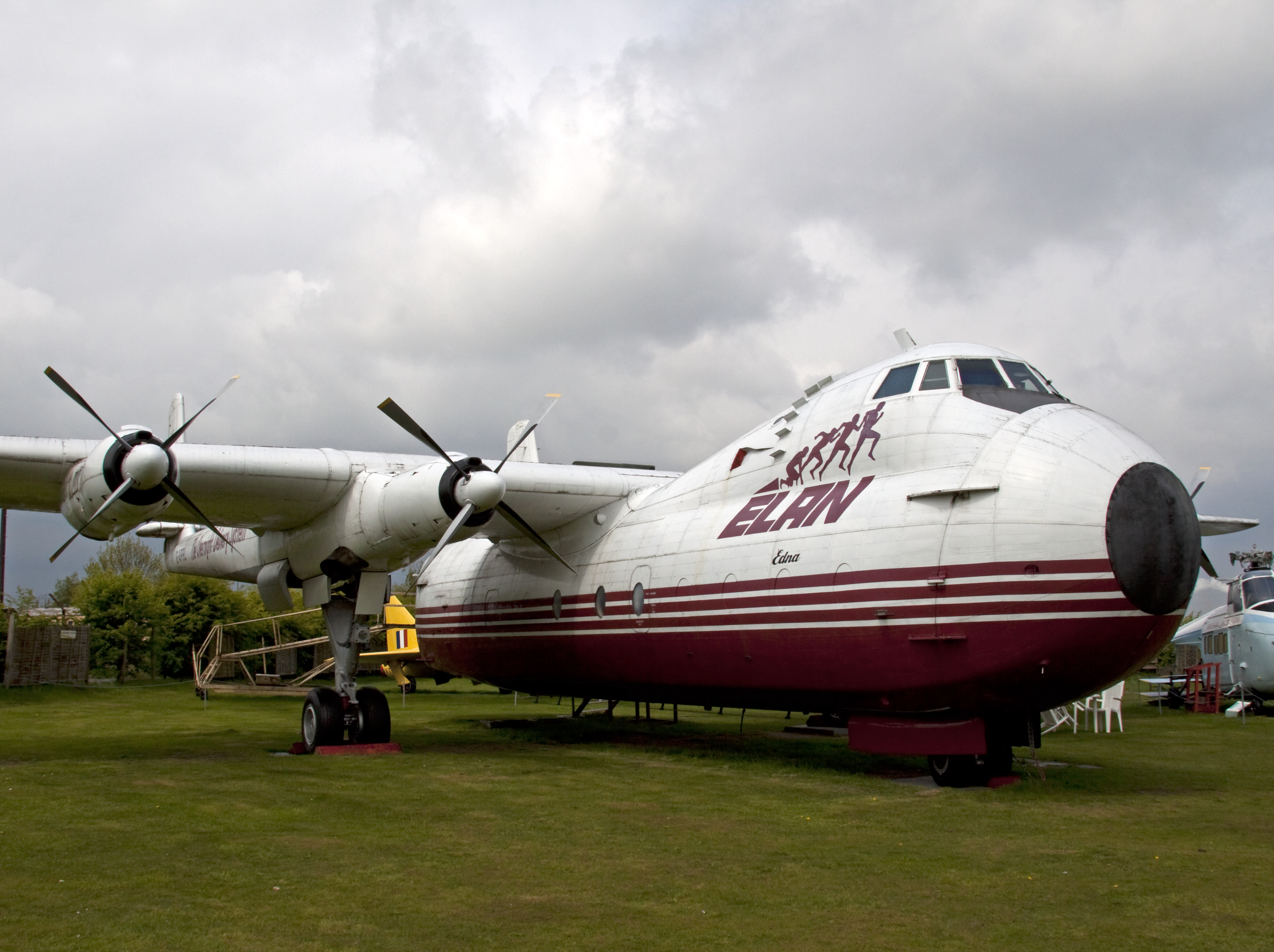 Armstrong-Whitworth Argosy 650 1